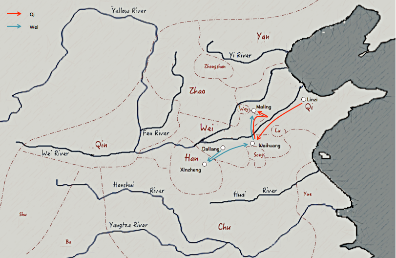 Map of the Battle of Maling between Qi and Wei 中文（中国大陆）: 齐魏马陵之战示意地图